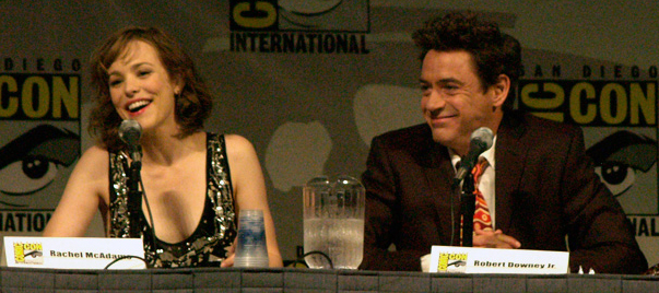 Rachel McAdams and Robert Downey, Jr. promoting the 2009 film Sherlock Holmes at San Diego Comic-Con.